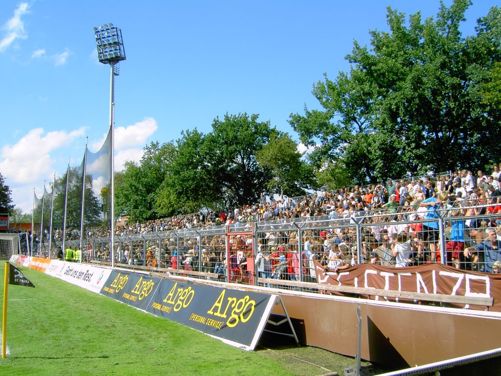 Millerntor-Stadium - homeground of the football club FC St. Pauli in Hamburg, Germany. View from the back straight to the north curve. Photo taken by Mghamburg before the third ligue match FC St. Pauli vs. SV Werder Bremen II, 19th August 2006 (Attendance: 16 400).